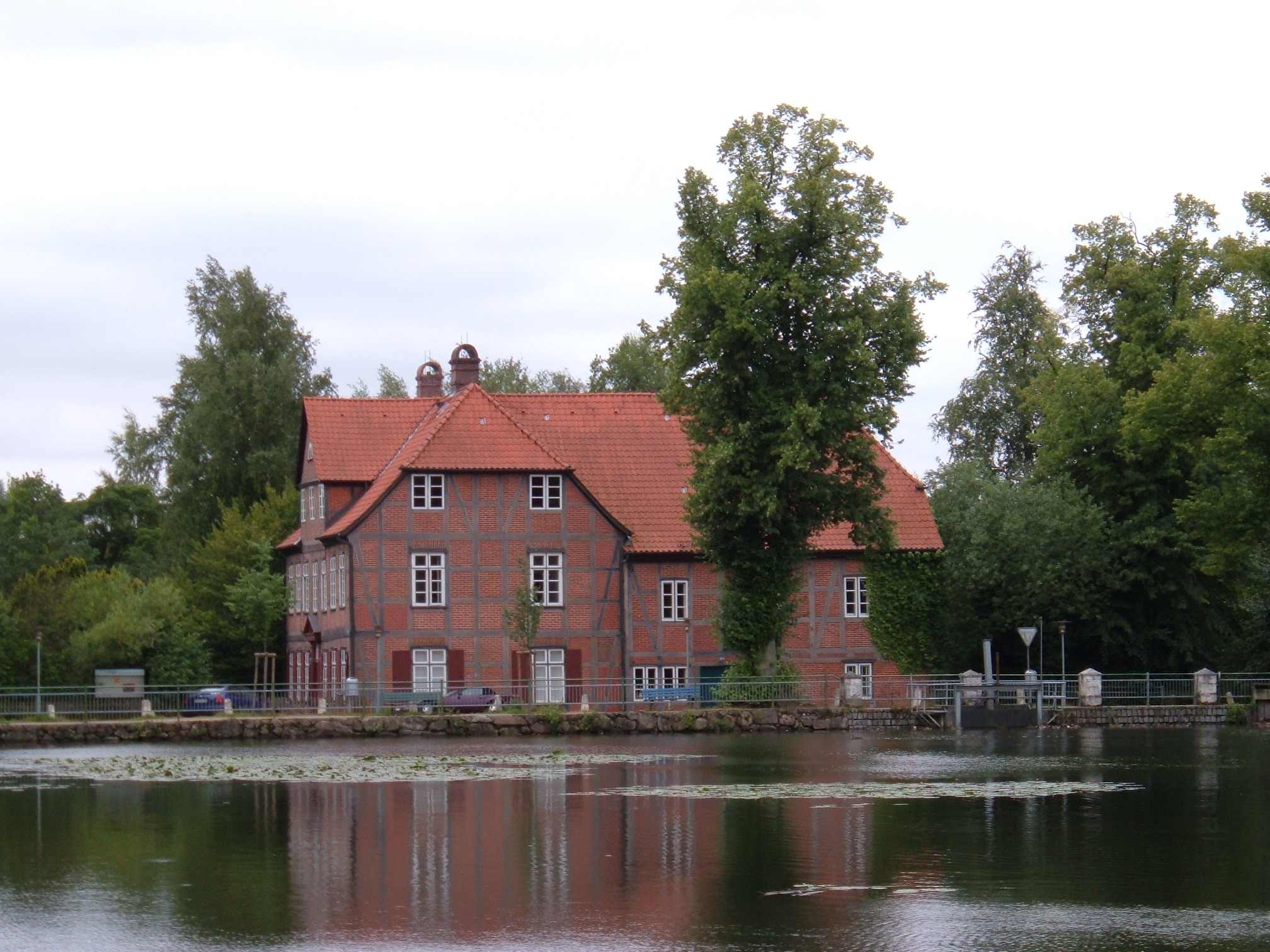 historic water mill in Trittau, Germany photographed by myself